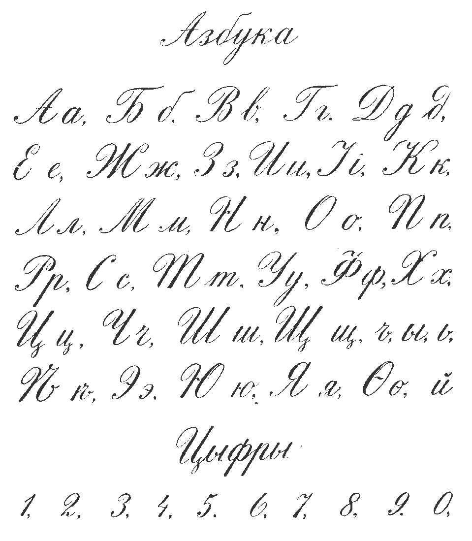 Russian Cyrillic handwriting sample from Flerov, V. (1916) Visual handwriting lessons. Unknown